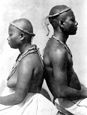 A couple of the "great Andamanese" population, one of the 5 indigenous population of negritos from andaman islands (great Andamanese ; Jangil ; Jarawa ; Onge ; Sentinelese).